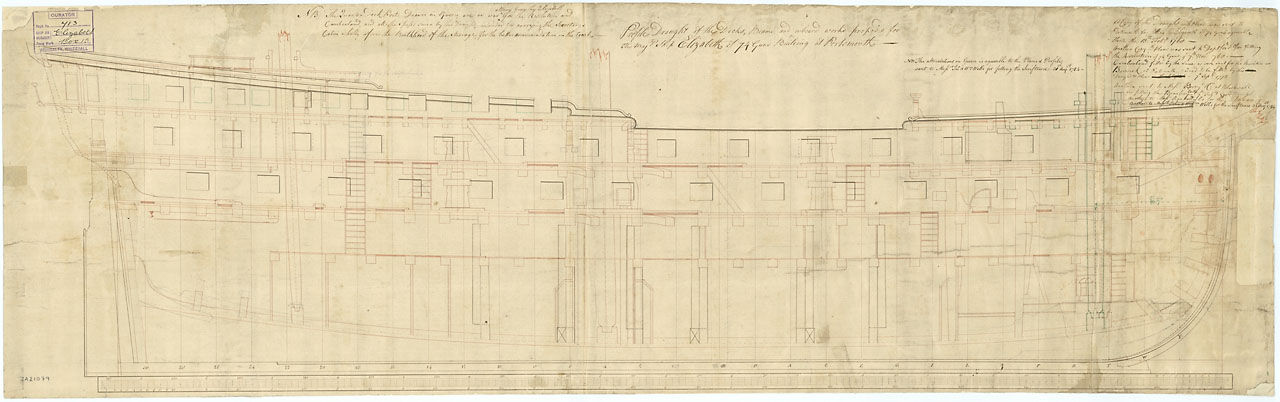 Исходный текст Plan showing the inboard profile profile (and approved) for 'Elizabeth' (1769), and with alterations for 'Resolutio'n (1770), 'Cumberland' (1774), 'Berwick' (1775), 'Bombay Castle' (1782), 'Defiance' (1783), 'Powerful' (1783), all 74-gun Third Rate, two-deckers.